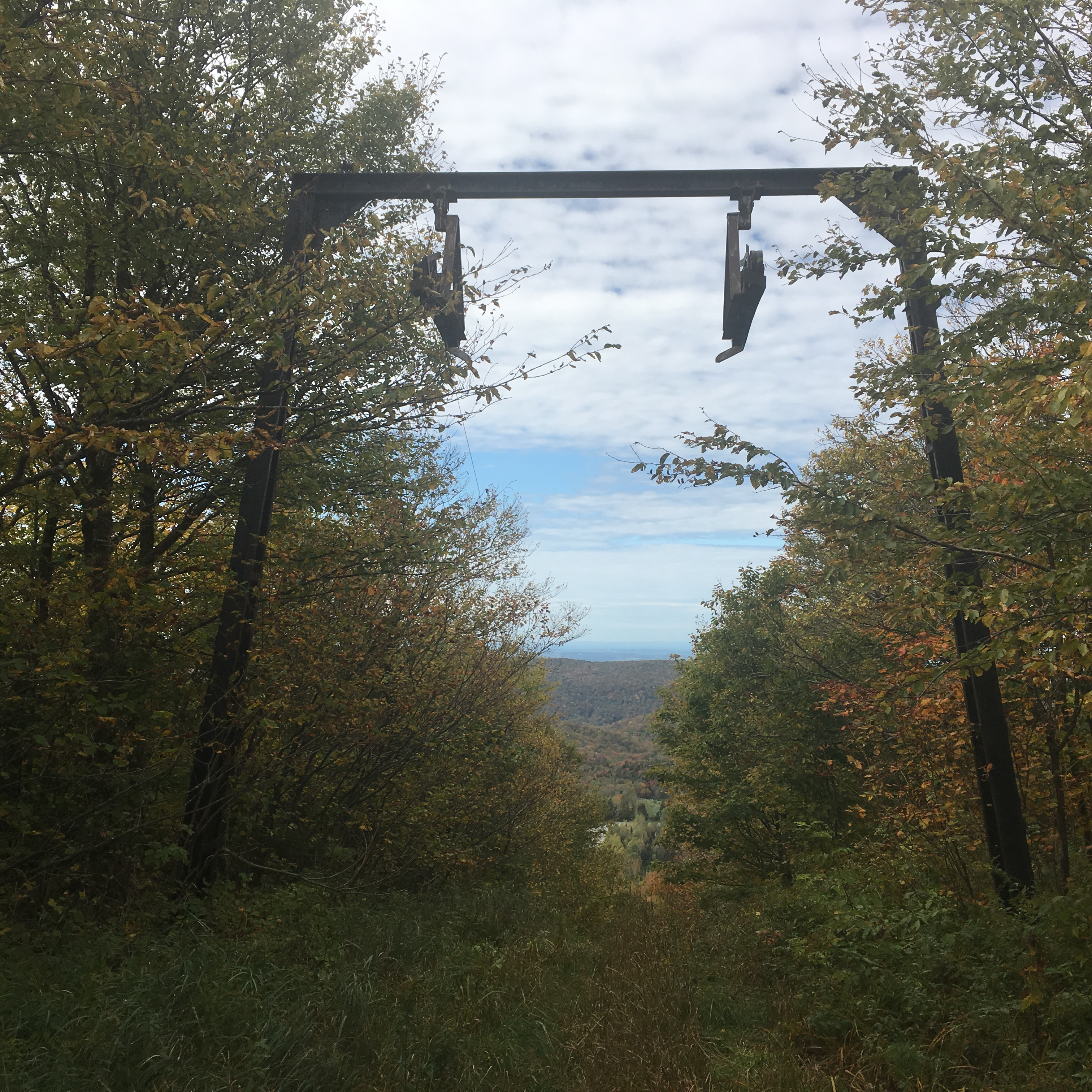 Looking through the T-Bar structure North toward Glastenbury Peak from the summit of Prospect Mountain, Vermont.